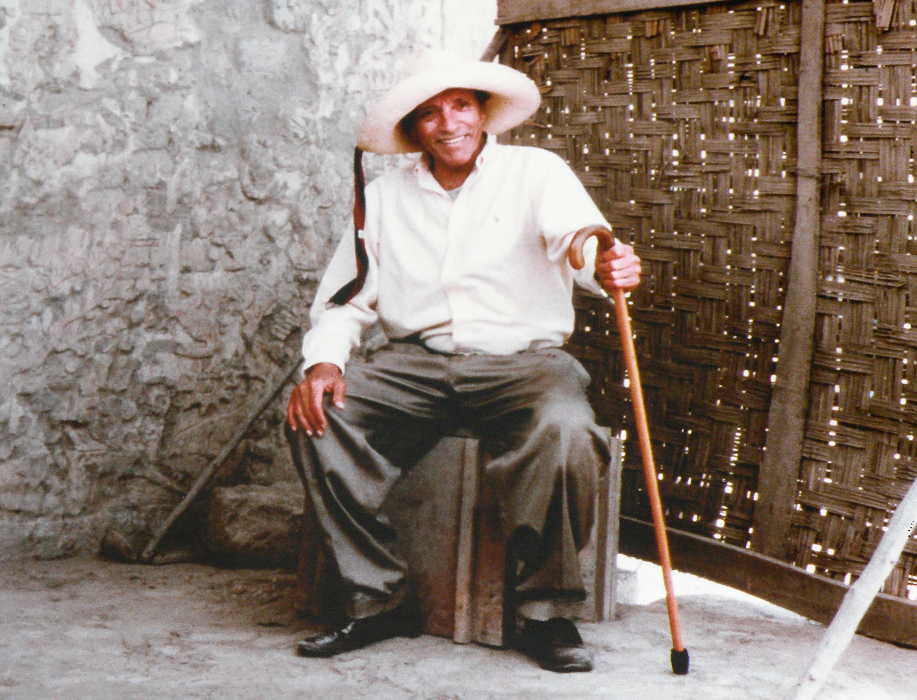 The Cao Museum is located on the El Brujo archaeological site near Trujillo in Peru. At the entrance we find the portrait of Guillermo Wiese de Osma, the patron who allowed its construction.